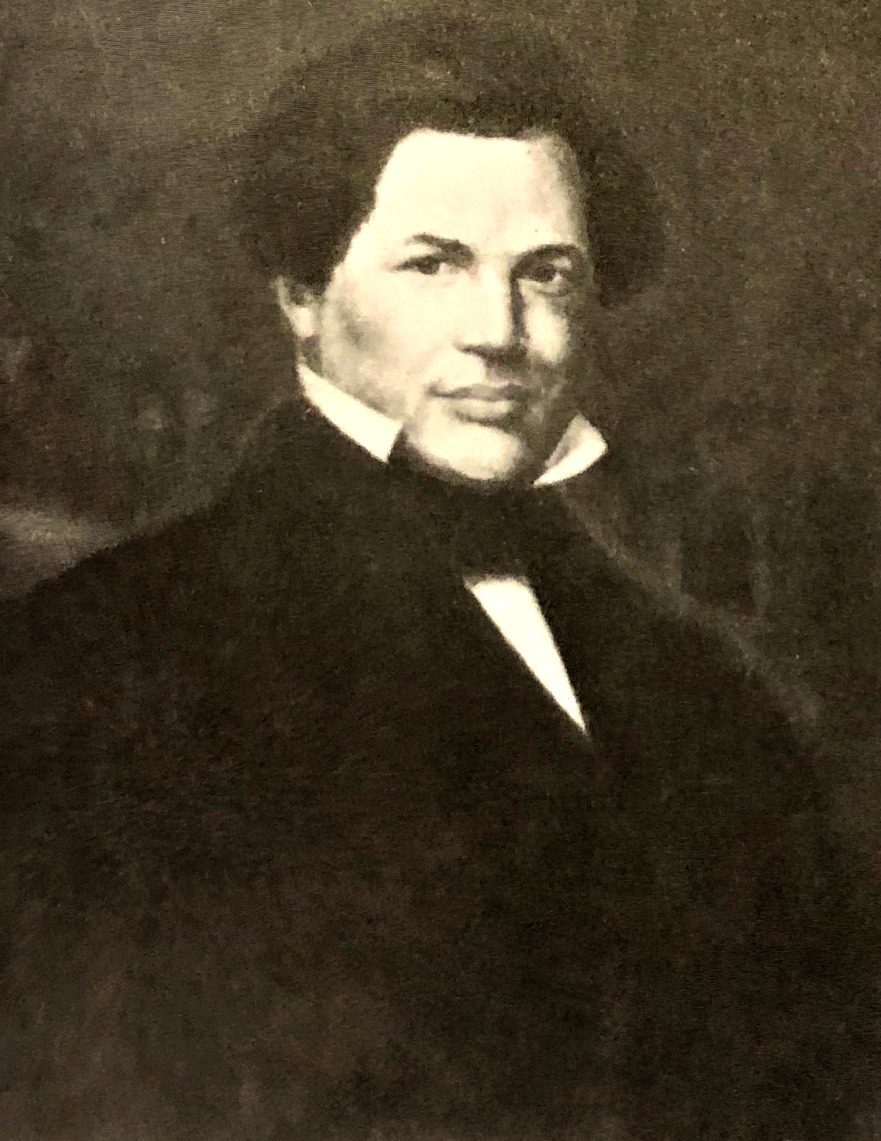 Oil on canvas. Bishop Jermain Wesley Loguen, 1835, Howard University Gallery of Art